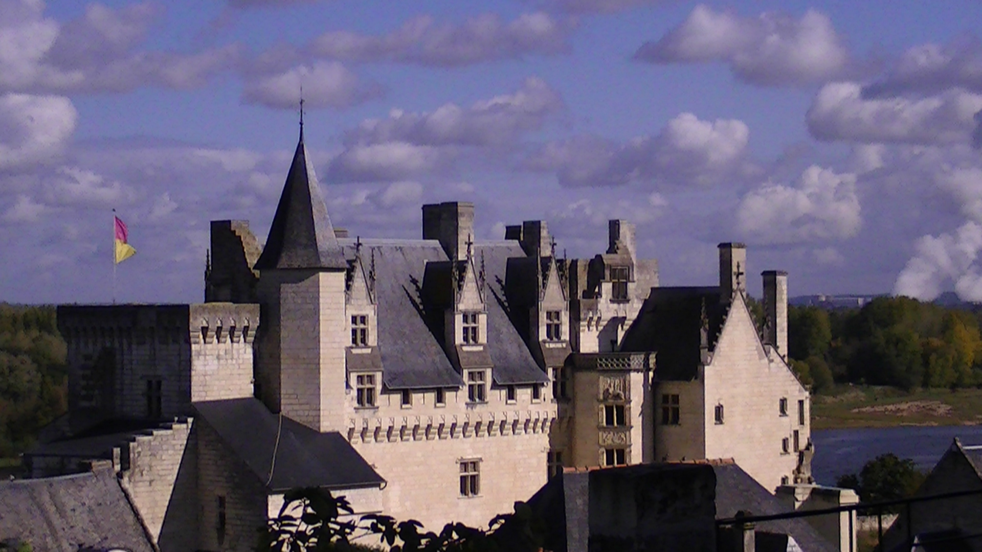 Château de Montsoreau (in the background, the Centrale nucléaire de Chinon is visible). This building is en partie classé, en partie inscrit au titre des Monuments Historiques. It is indexed in the Base Mérimée, a database of architectural heritage maintained by the French Ministry of Culture, under the references IA49009670 and PA00109211 .